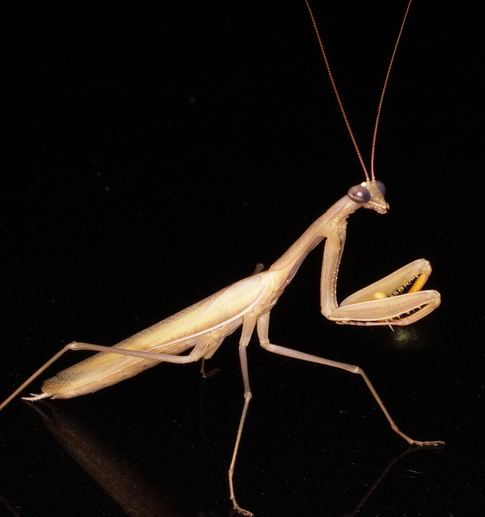 Unidentified brown mantid. Location: Western Liguria, Northern Italy. Temperature at the shot: 23°C Please name after species, re-name and re-categorise, if you are able to identify it.